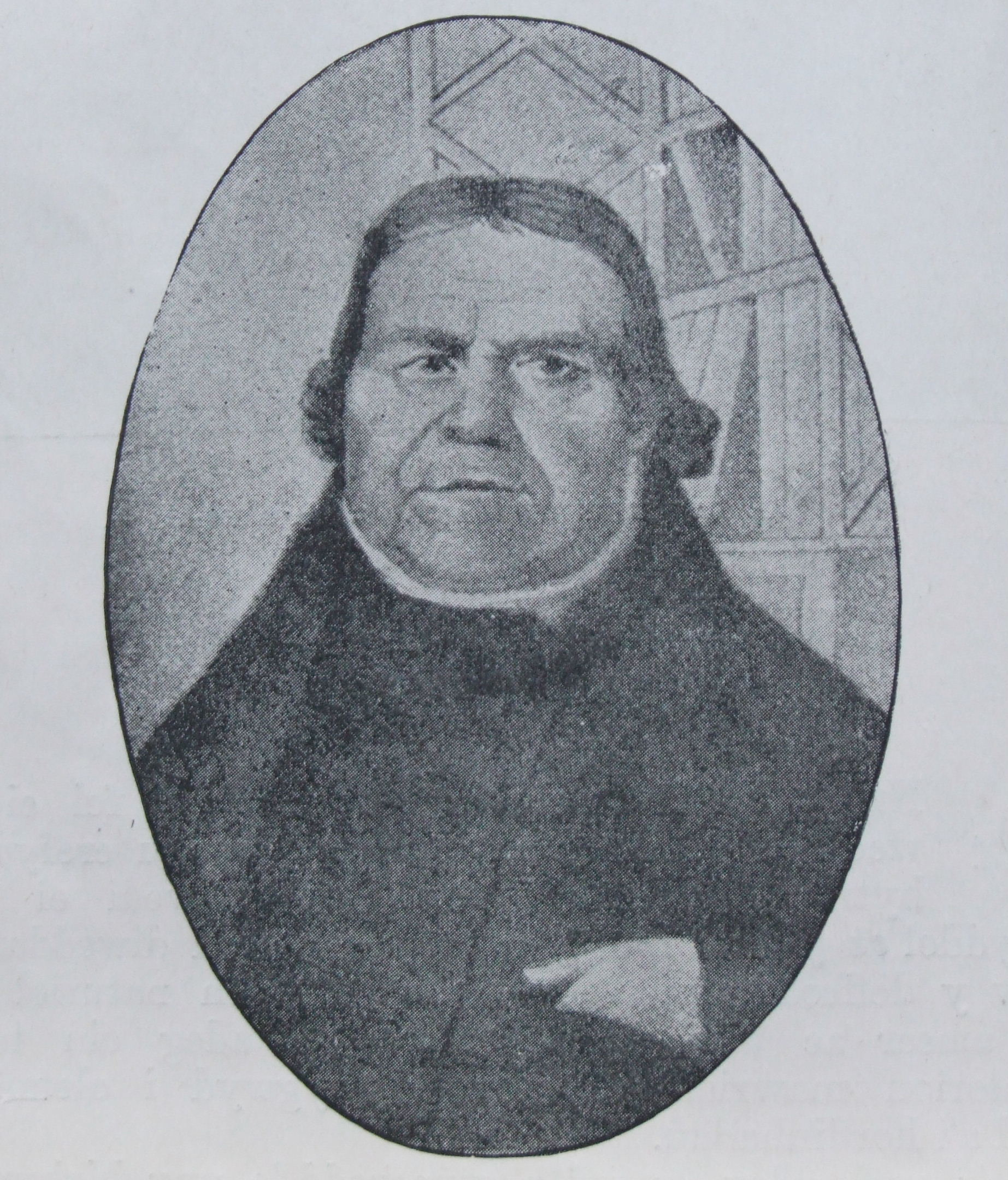 Welsh author Robert Jones, Rhoslan. Engraving reproduced in the magazine "Y Llenor", Vol. I, 1895.